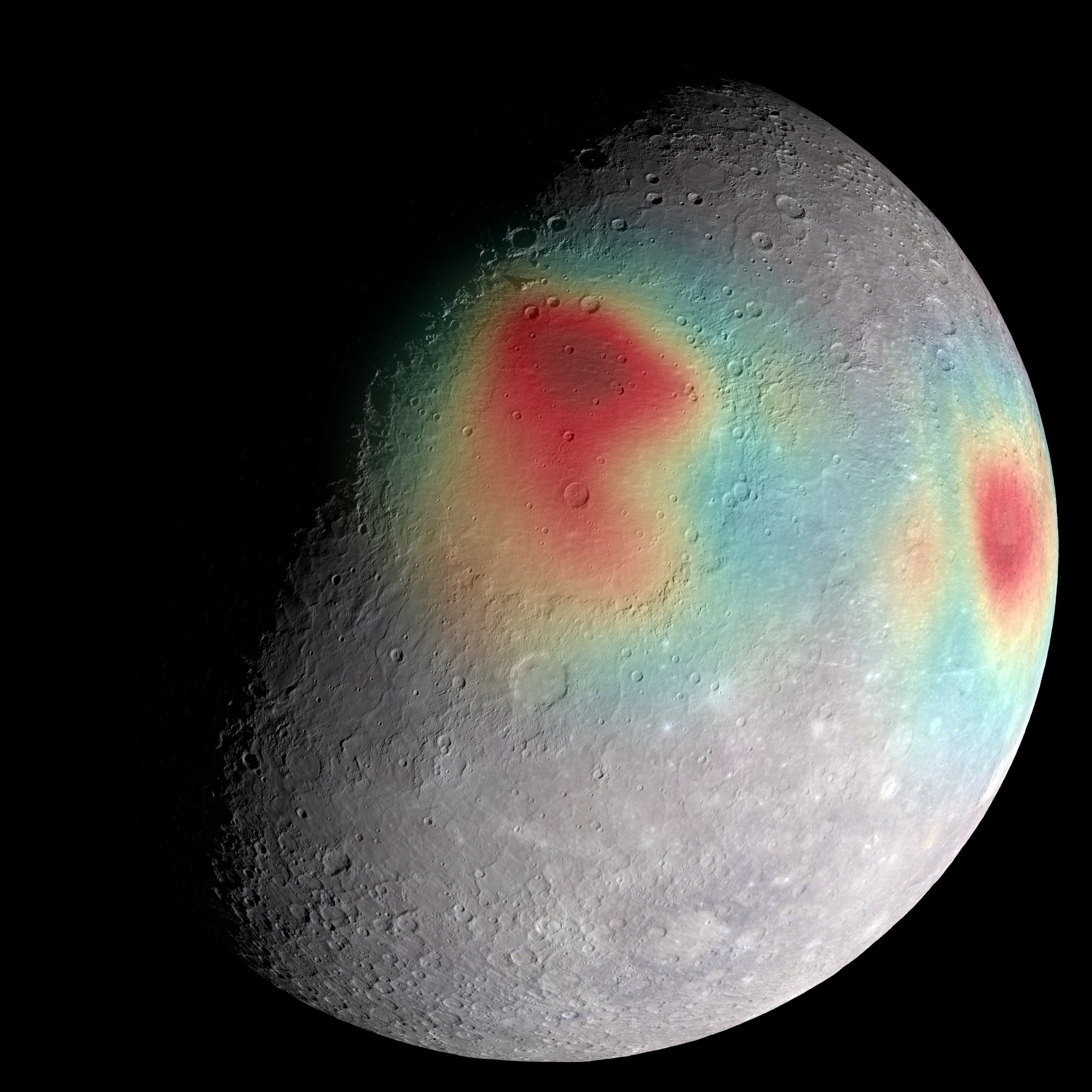 Analysis of radio tracking data have enabled maps of the gravity field of Mercury to be derived. In this image, overlain on a mosaic obtained by MESSENGER's Mercury Dual Imaging System and illuminated with a shape model determined from stereo-photoclinometry, Mercury's gravity anomalies are depicted in colors. Red tones indicate mass concentrations, centered on the Caloris basin (center) and the Sobkou region (right limb). Such large-scale gravitational anomalies are signatures of subsurface structure and evolution. The north pole is near the top of the sunlit area in this view. The MESSENGER spacecraft is the first ever to orbit the planet Mercury, and the spacecraft's seven scientific instruments and radio science investigation are unraveling the history and evolution of the Solar System's innermost planet. In the mission's more than four years of orbital operations, MESSENGER has acquired over 250,000 images and extensive other data sets. MESSENGER's highly successful orbital mission is about to come to an end, as the spacecraft runs out of propellant and the force of solar gravity causes it to impact the surface of Mercury in April 2015.